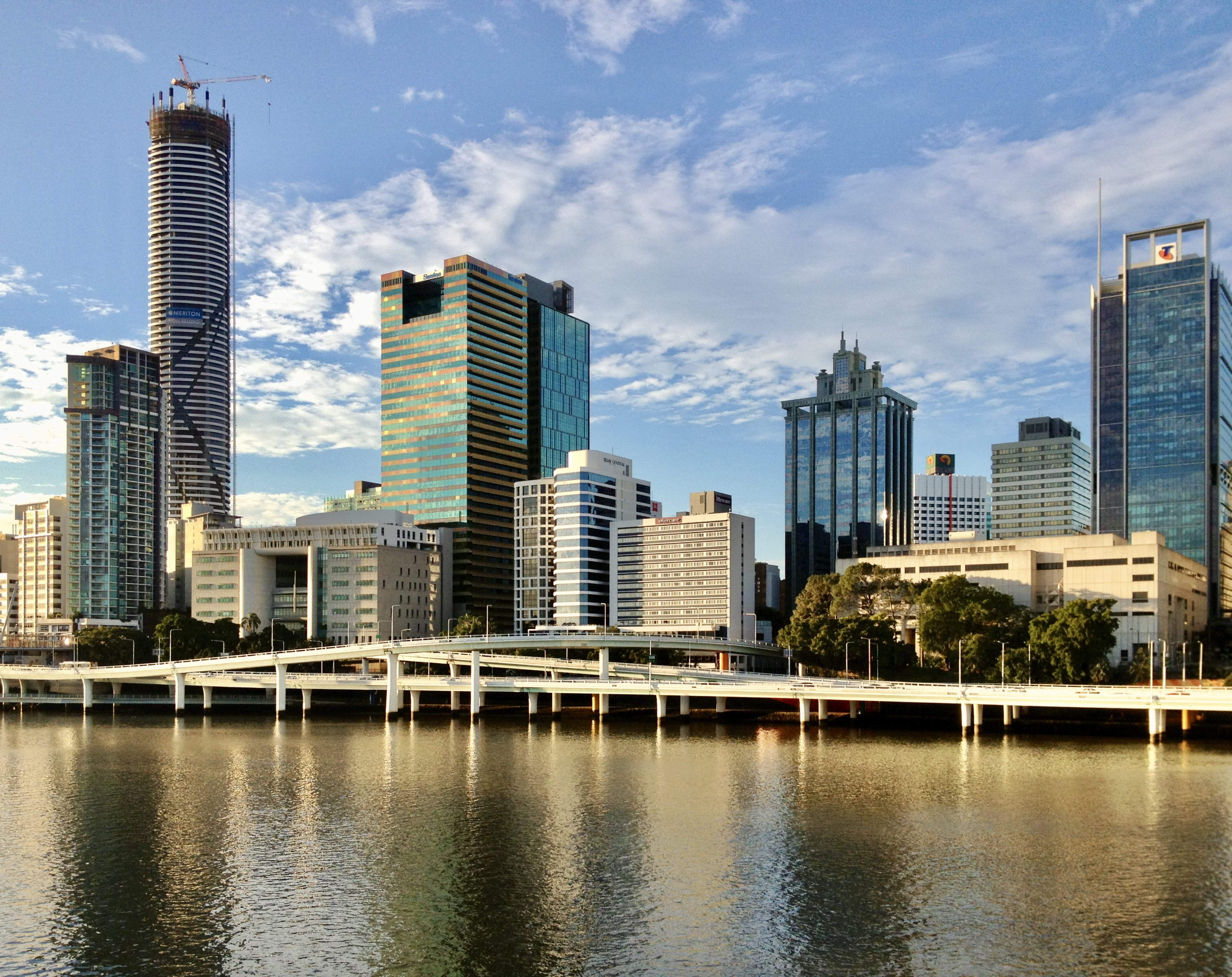 Brisbane Skyline viewed from South Bank Parklands